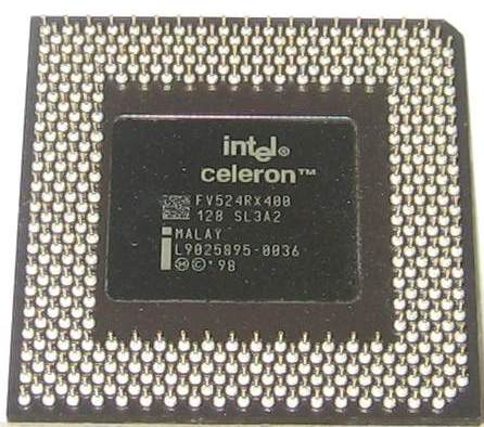 Celeron "Mendocino" (Pentium 2-based) 400 MHz, 128k L2 cache.